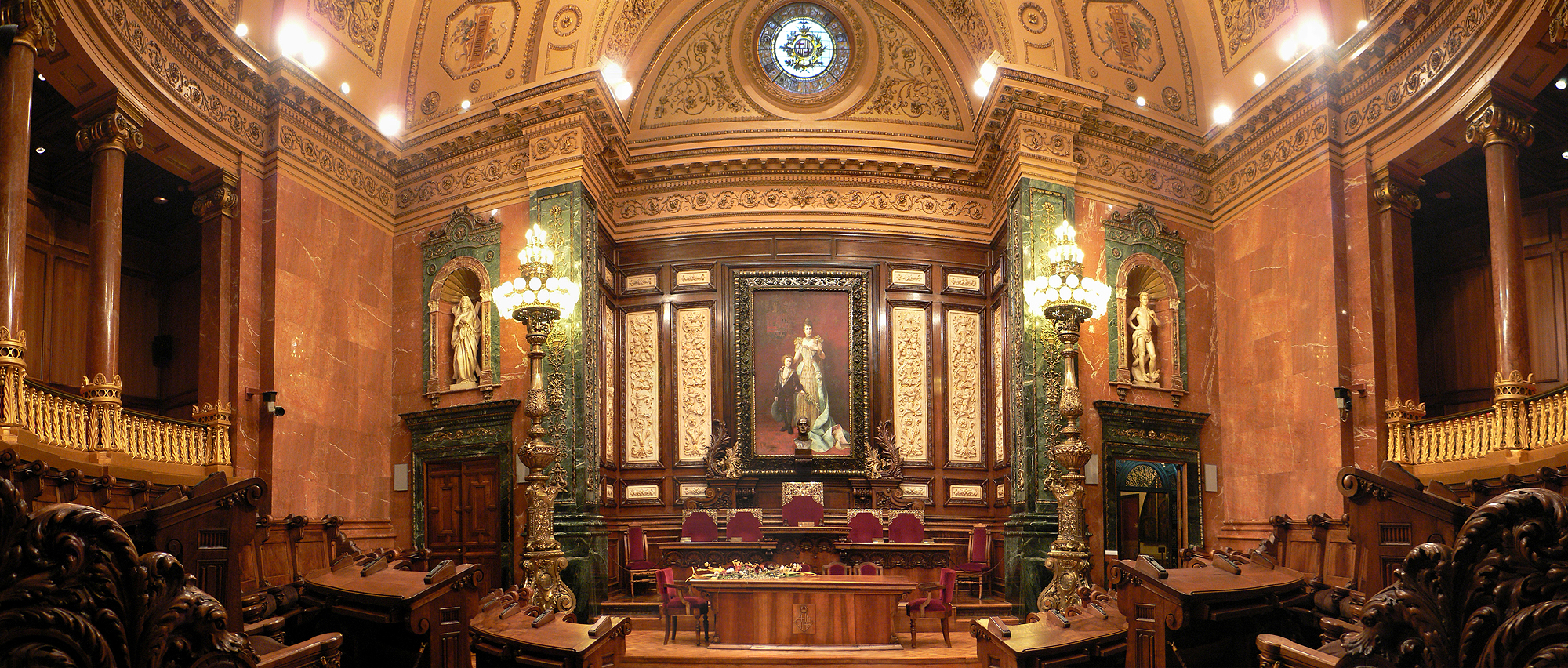 Barcelona, City Hall. Saló de la Reina Regent (City Council hall).